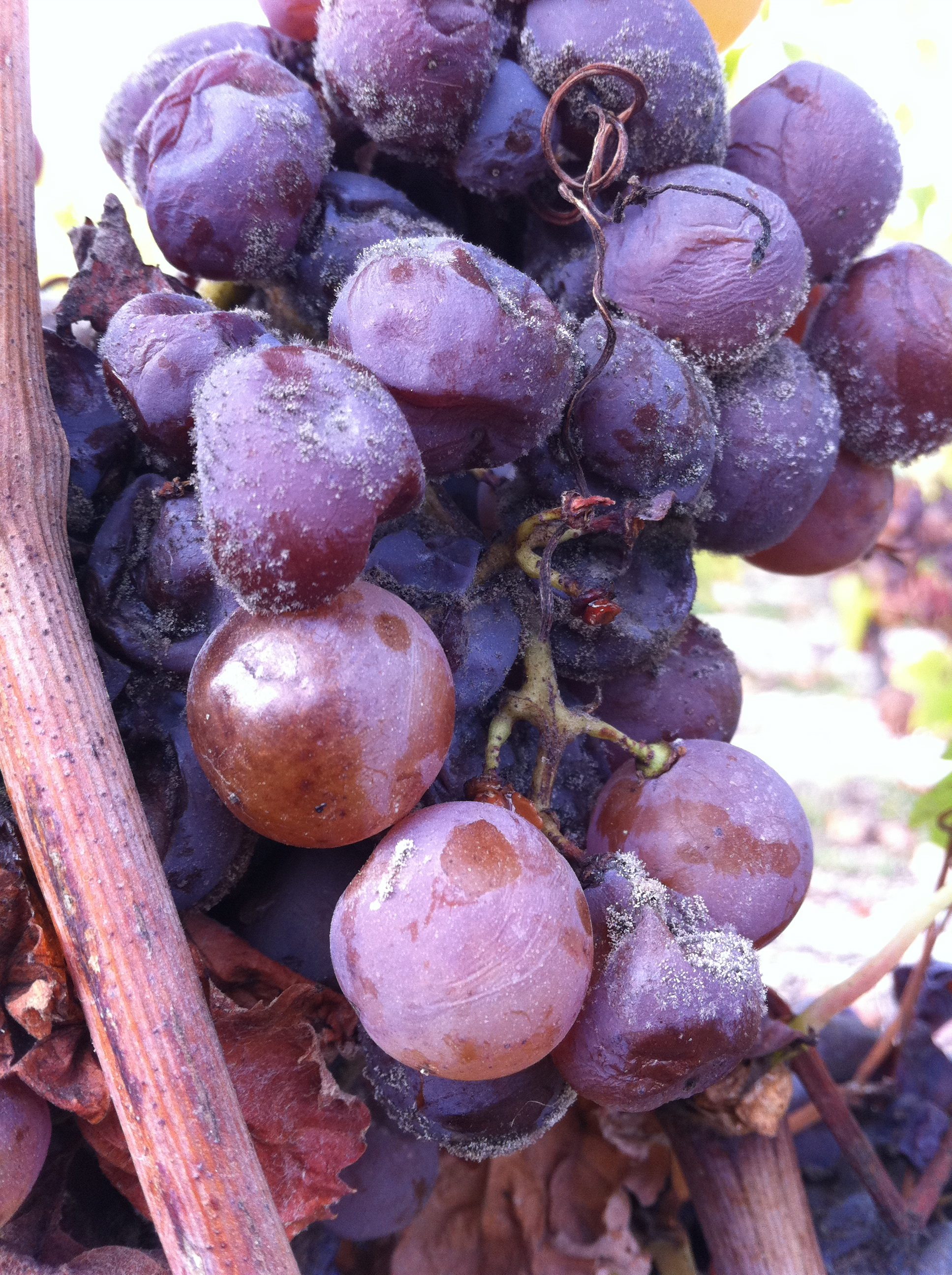 Grapes with botrytis cinerea in the Sauternes region of France